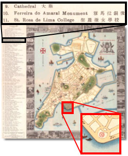 A map showing "Praca de Ferreira do Amaral" of Macau in 1936